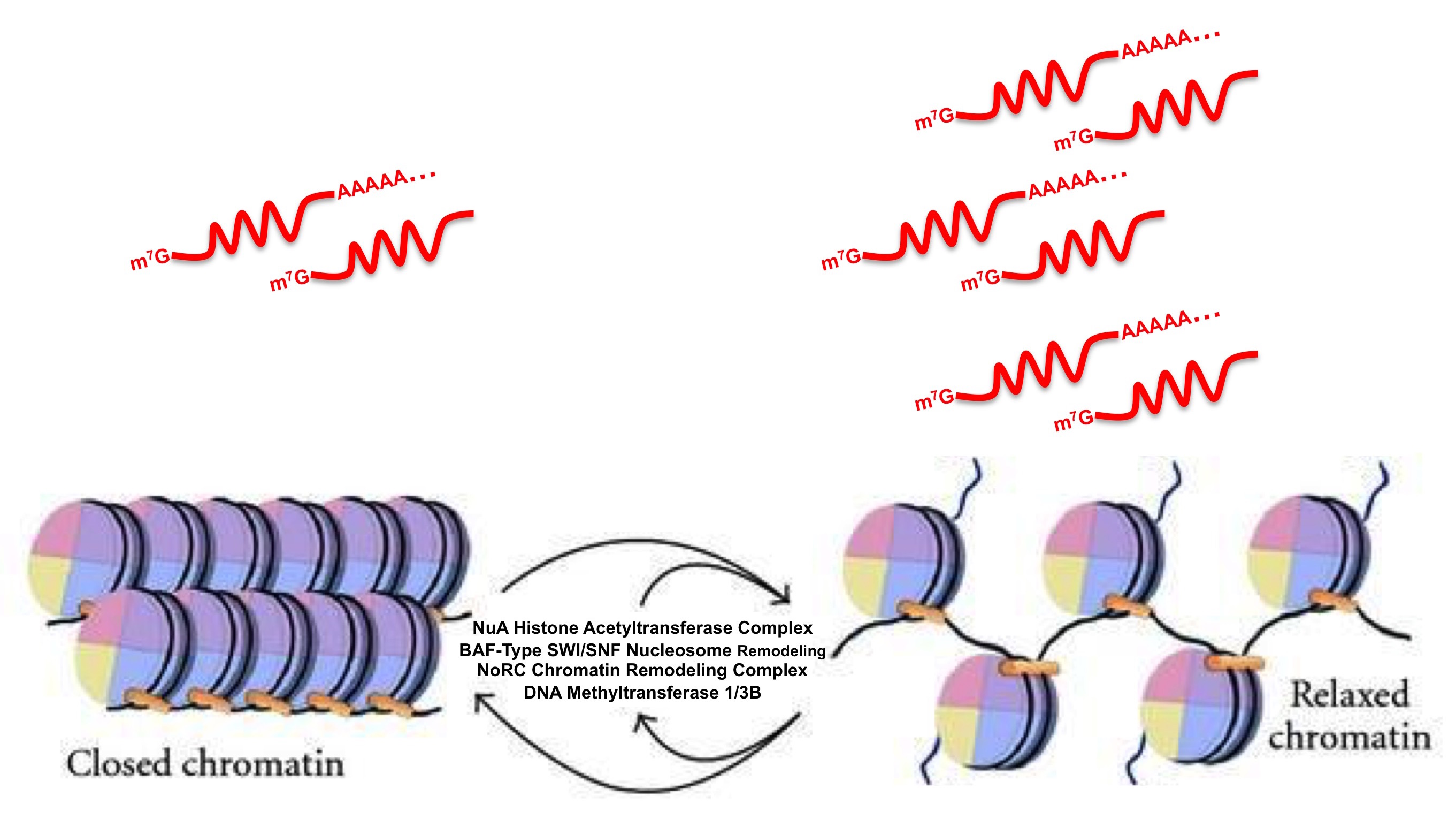 The heterochromatic state of chromatin effects relative TERRA expression. In general, closed chromatin structure leads to low level TERRA expression, while relaxed chromatin structure allows for higher levels of TERRA expression due to increased transcription. Heterochromatic state can be modified by factors such as the NuA Histone Acetyltransferase Complex, BAF-Type SWI/SNF Nucleosome Remodeling Complex, and the NoRC Chromatin Remodeling Complex